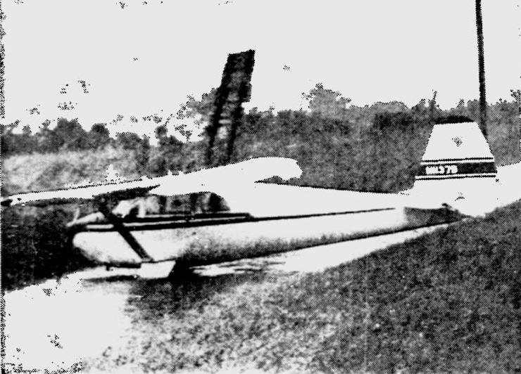 A plane that was tossed into a ditch by the winds from Hurricane Debra of 1959.